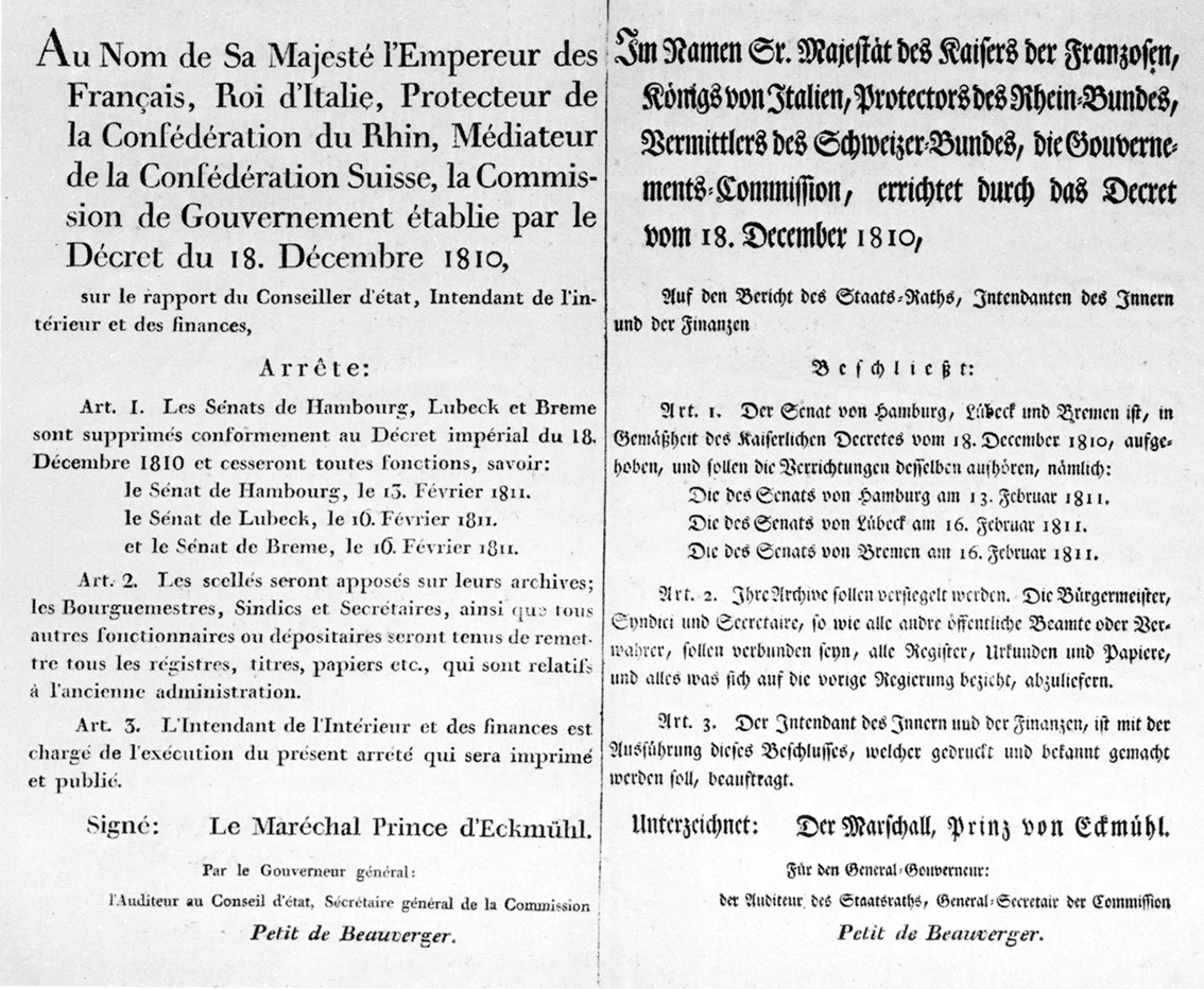 Decree on the abolition of the councils of the hanseatic cities of Hamburg, Lübeck and Bremen in February 1811, issued by Louis-Nicolas Davout, Marshal of France, on 10 February 1811.